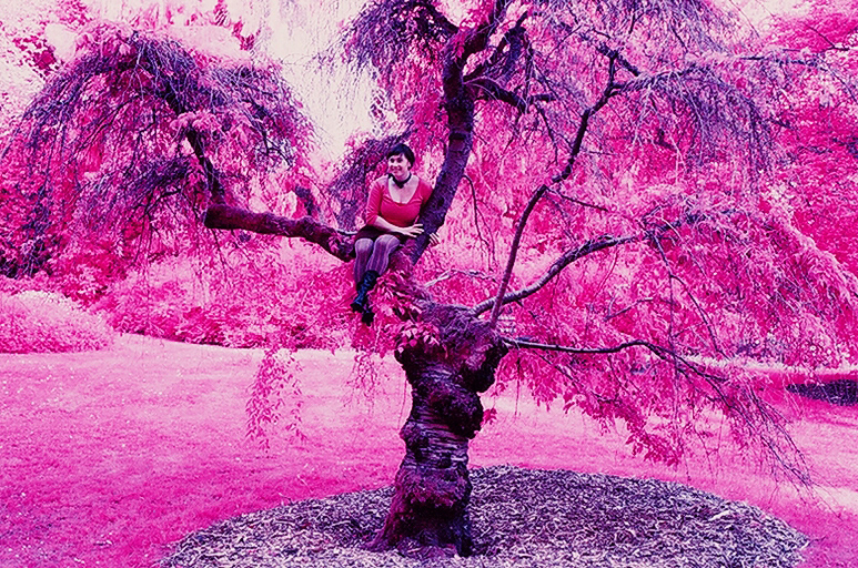 Example of a color infrared photo from either San Francisco, Seattle, and Toronto.